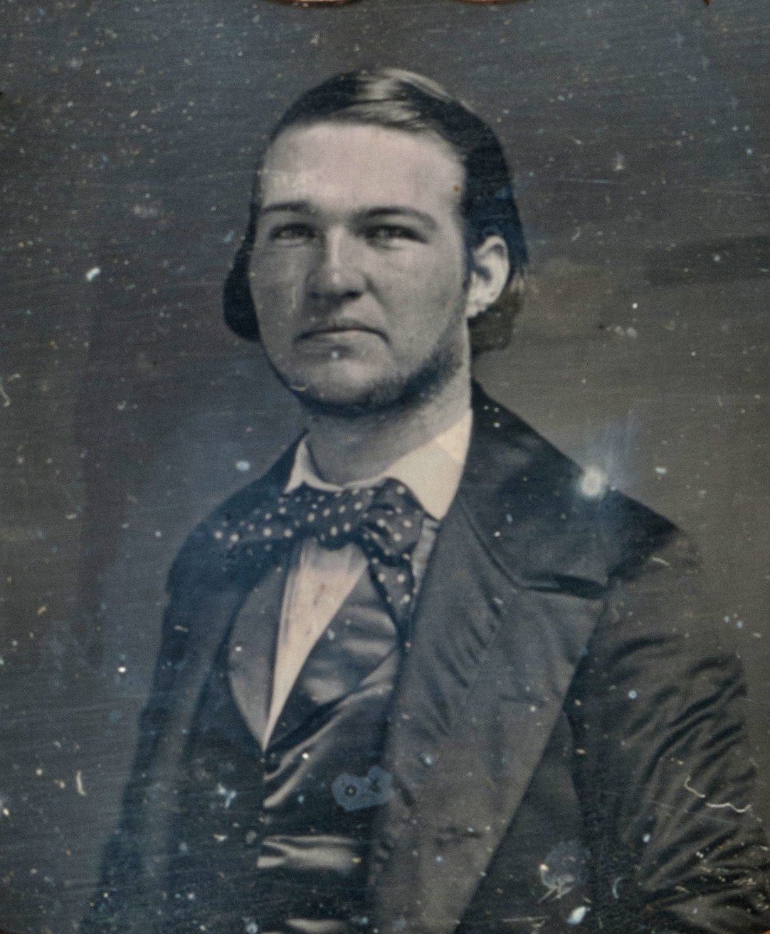 Sixth plate daguerreotype of Horace Gray